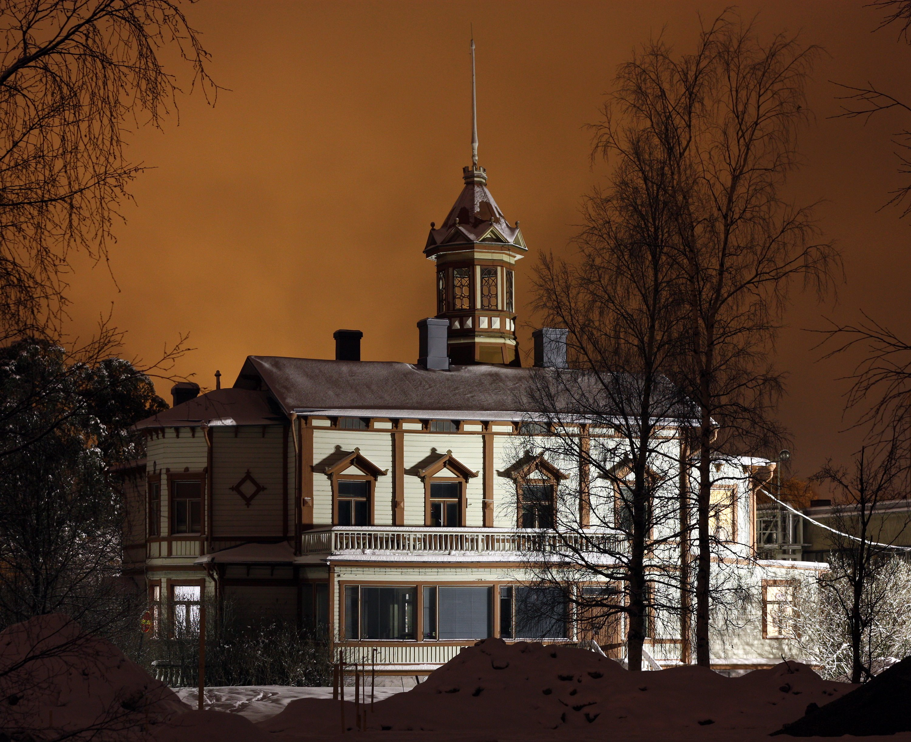 The villa-like office building of the Toppila brewery was built in 1856. The current appearance is from modification made in 1881.